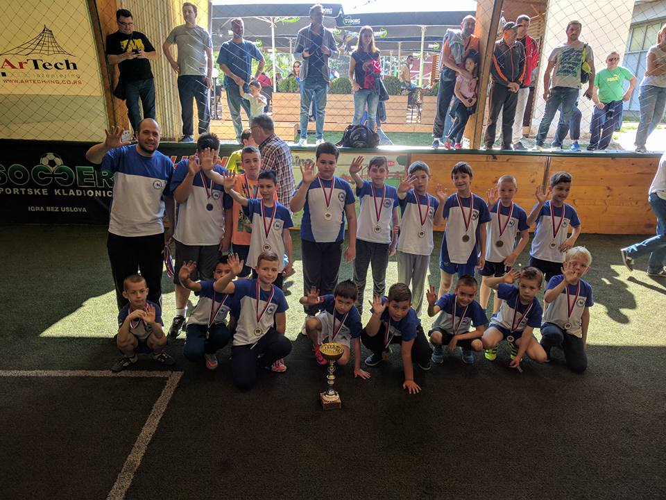 Football club Sporting